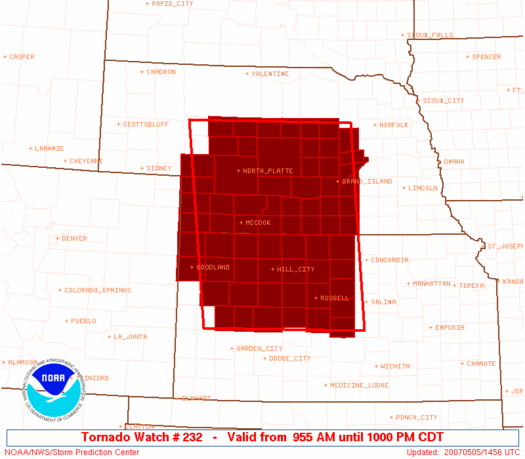 Tornado watch 232 from the year 2007, issued during the May 2007 tornado outbreak